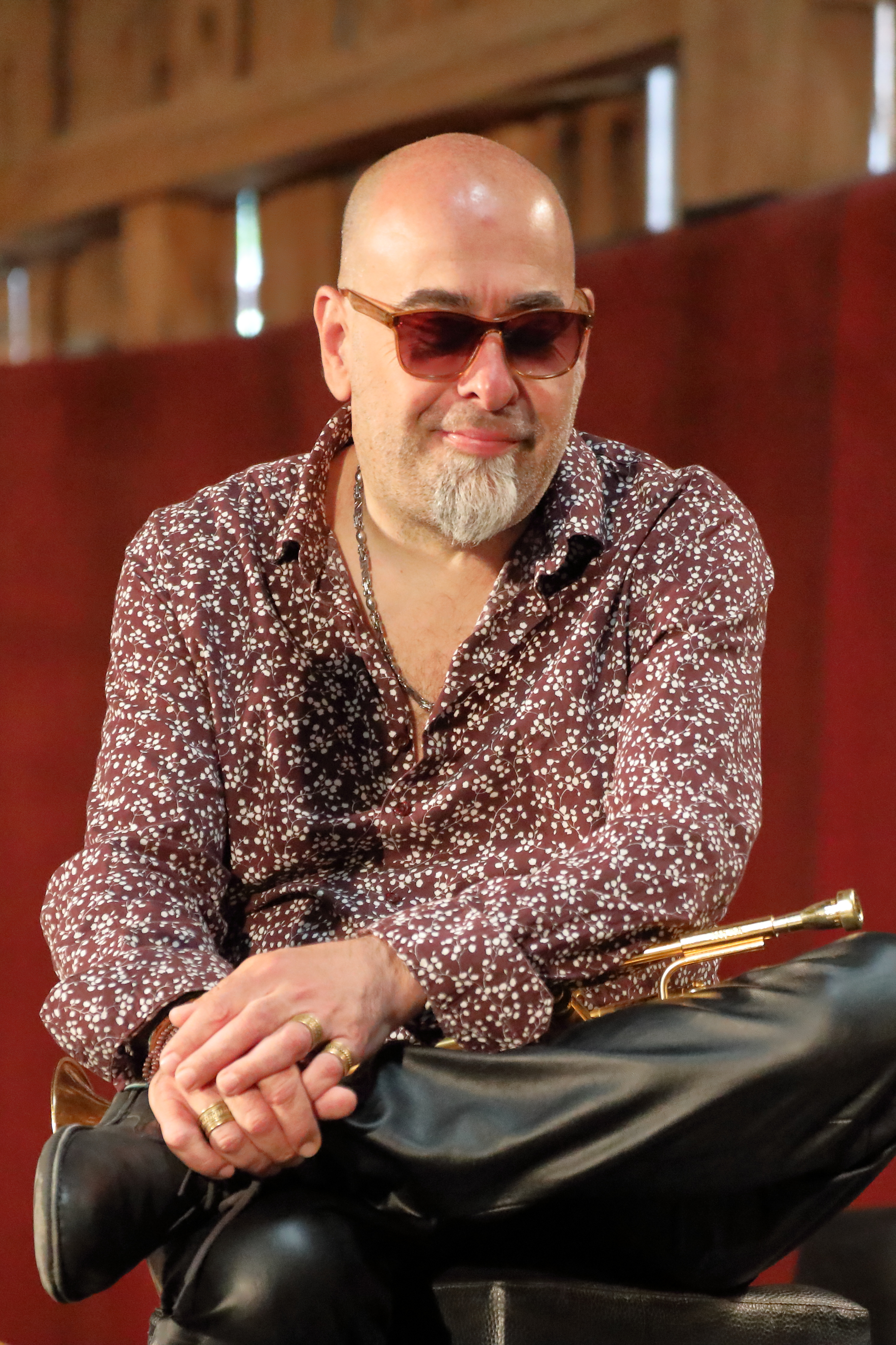 French duo Sylvain Luc (g) & Stéphane Belmondo (tr) at INNtöne Jazzfestival 2019.